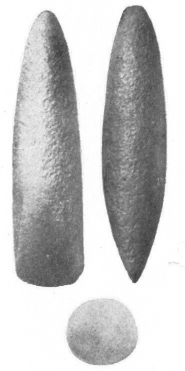 Rround stone axe from Gotland, Sweden